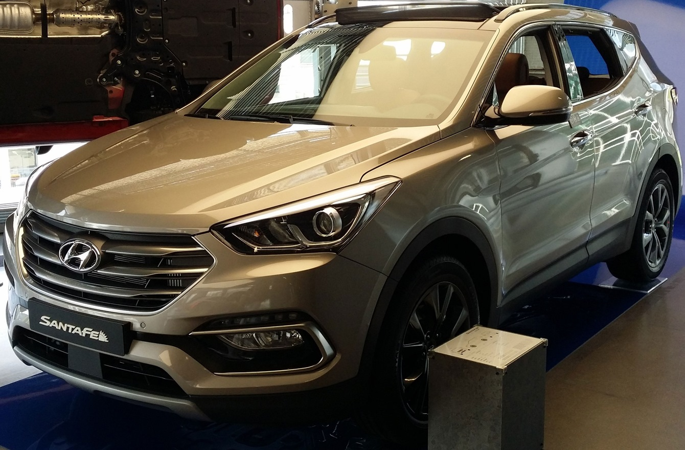 Hyundai Santa Fe The Prime